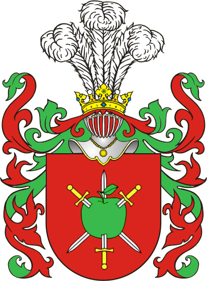 Herb Herburt Clan, Herburt coat of arms File:POL COA Herburt.svg is a vector version of this file. It should be used in place of this raster image when not inferior. File:Herb Herburt.jpg File:POL COA Herburt.svg For more information, see Help:SVG. In other languages